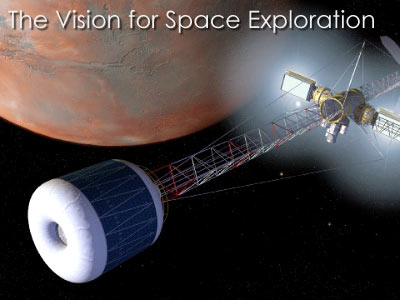 Vsfe ship.jpg